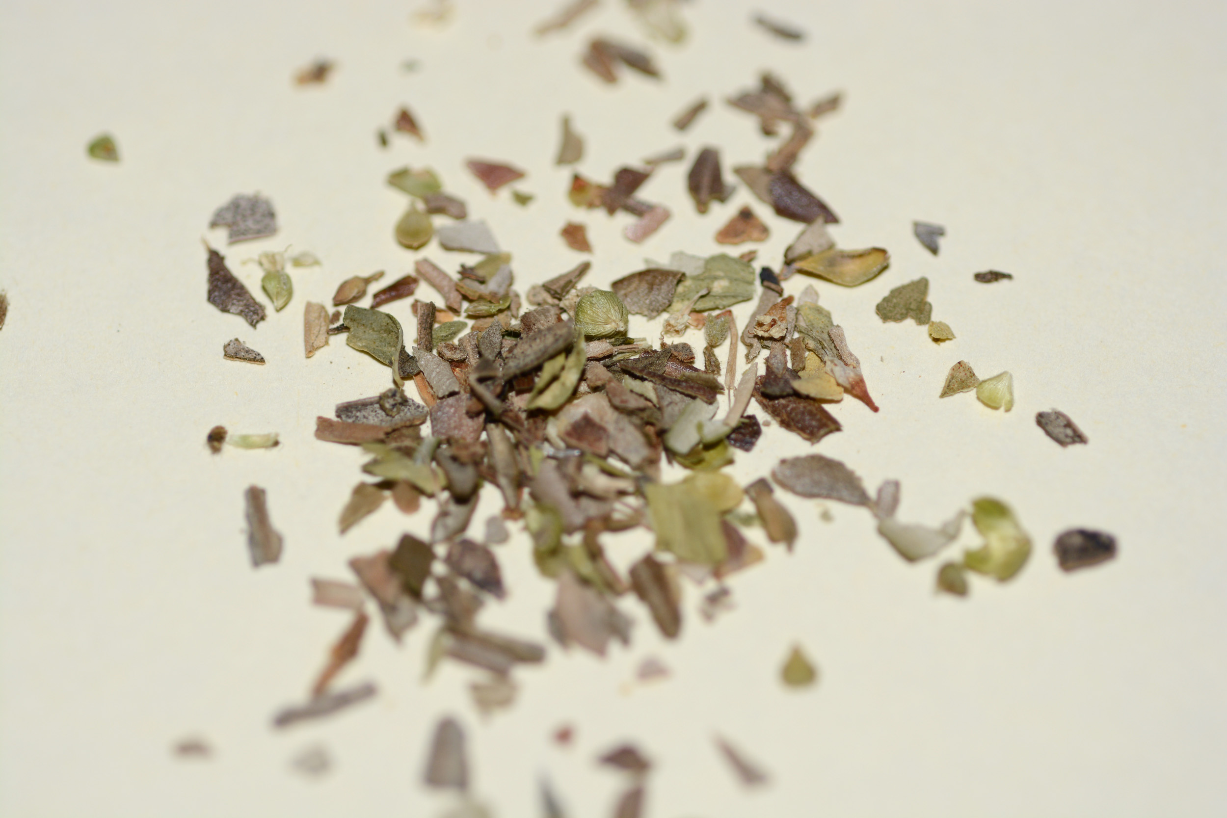 Spices and herbs. Dried oregano.